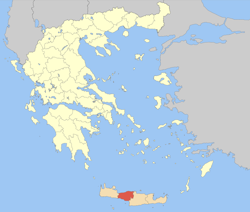 Locator map of Rethymno prefecture (Νομός Ρεθύμνου) in Greece